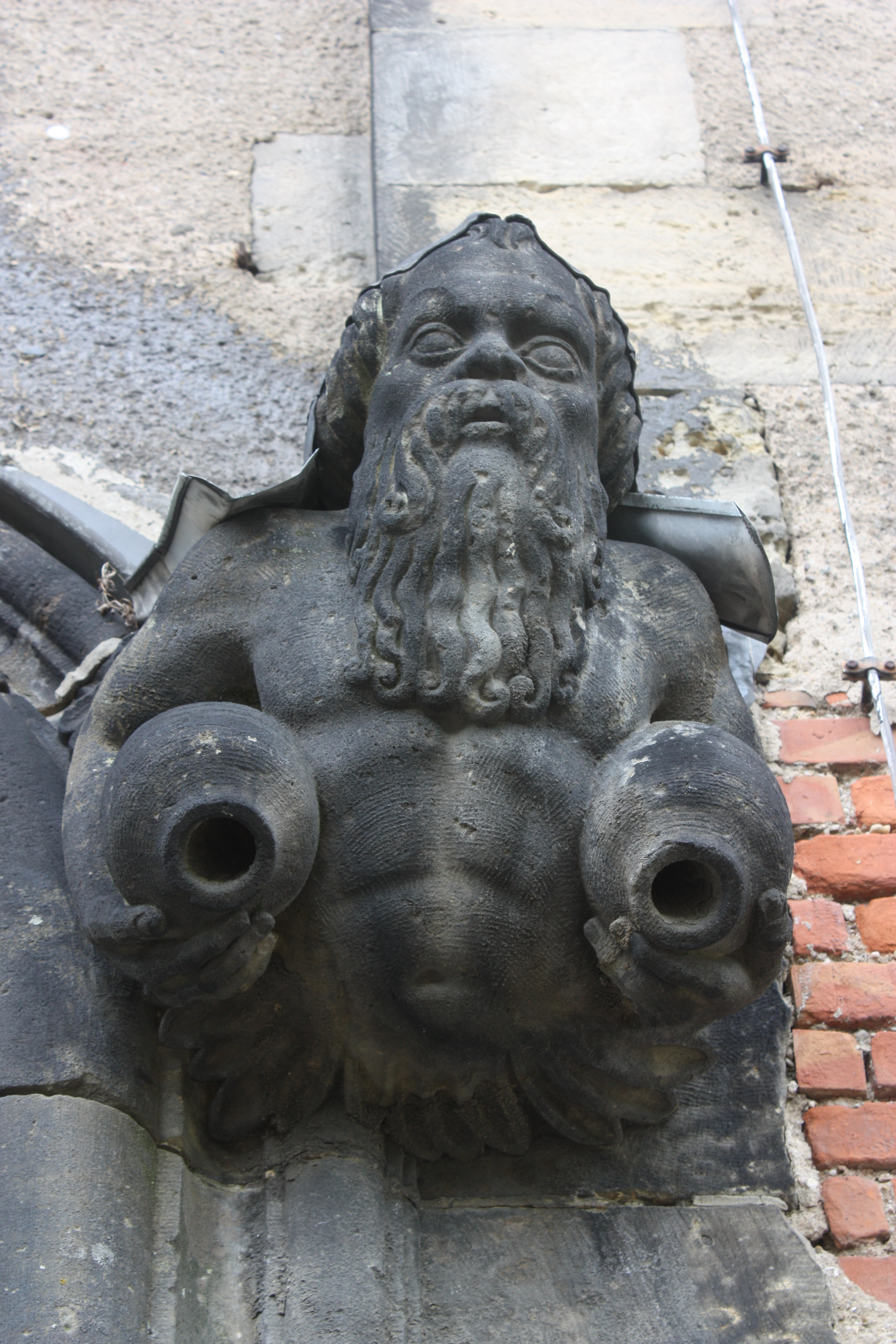 Detail at portal of the Taborkirche in Leipzig, Germany.